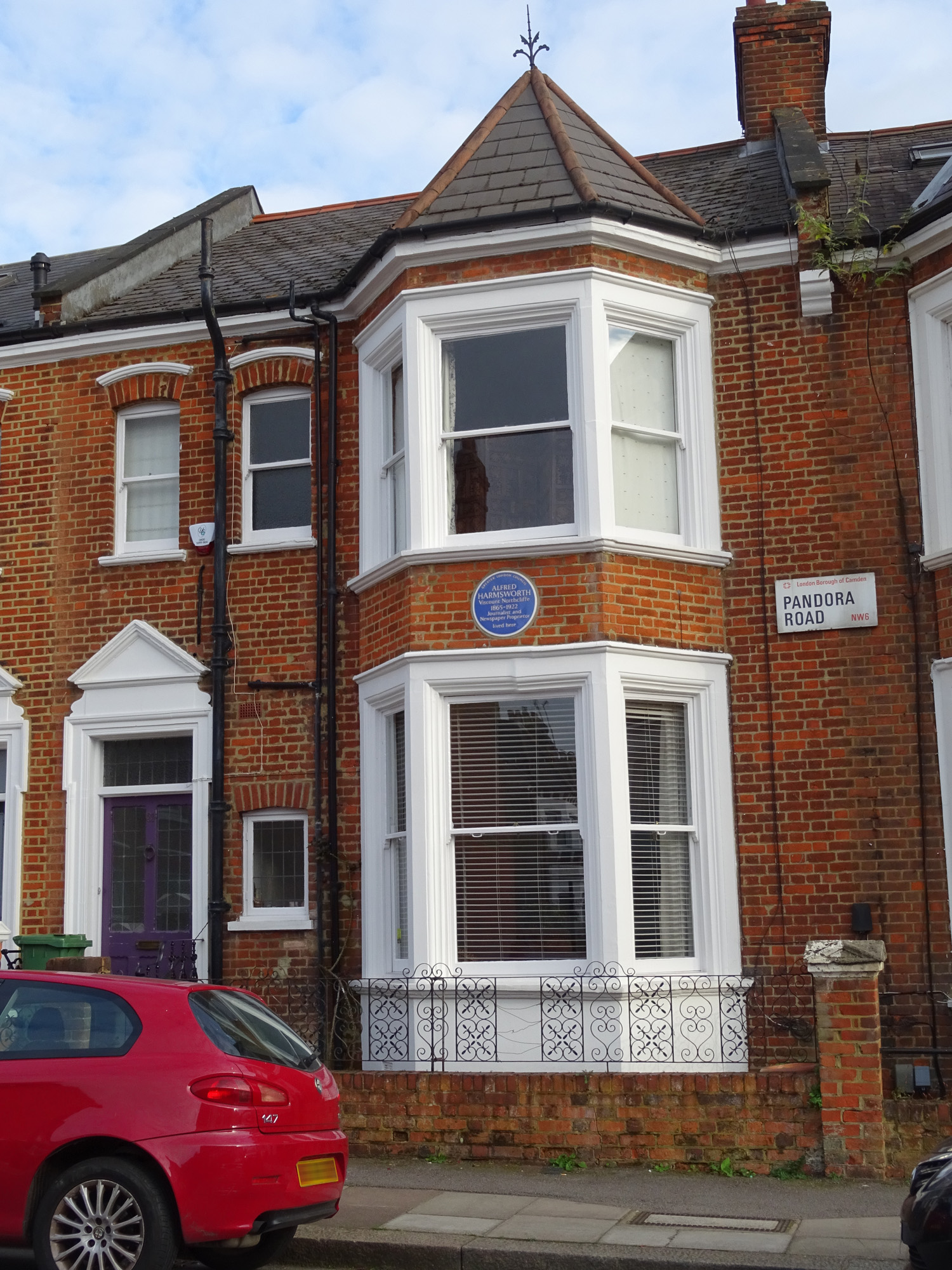 ALFRED HARMSWORTH Viscount Northcliffe 1865-1922 Journalist and Newspaper Proprietor lived here